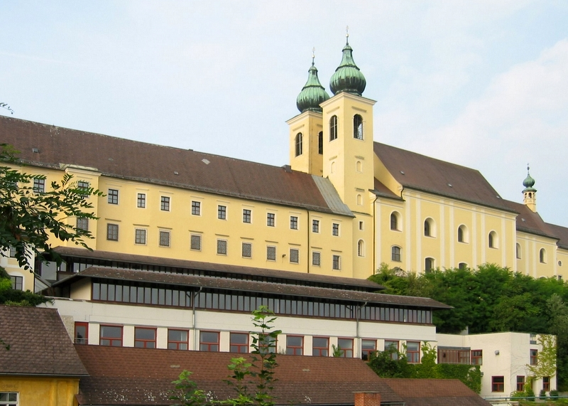 Extension of Lambach monastery